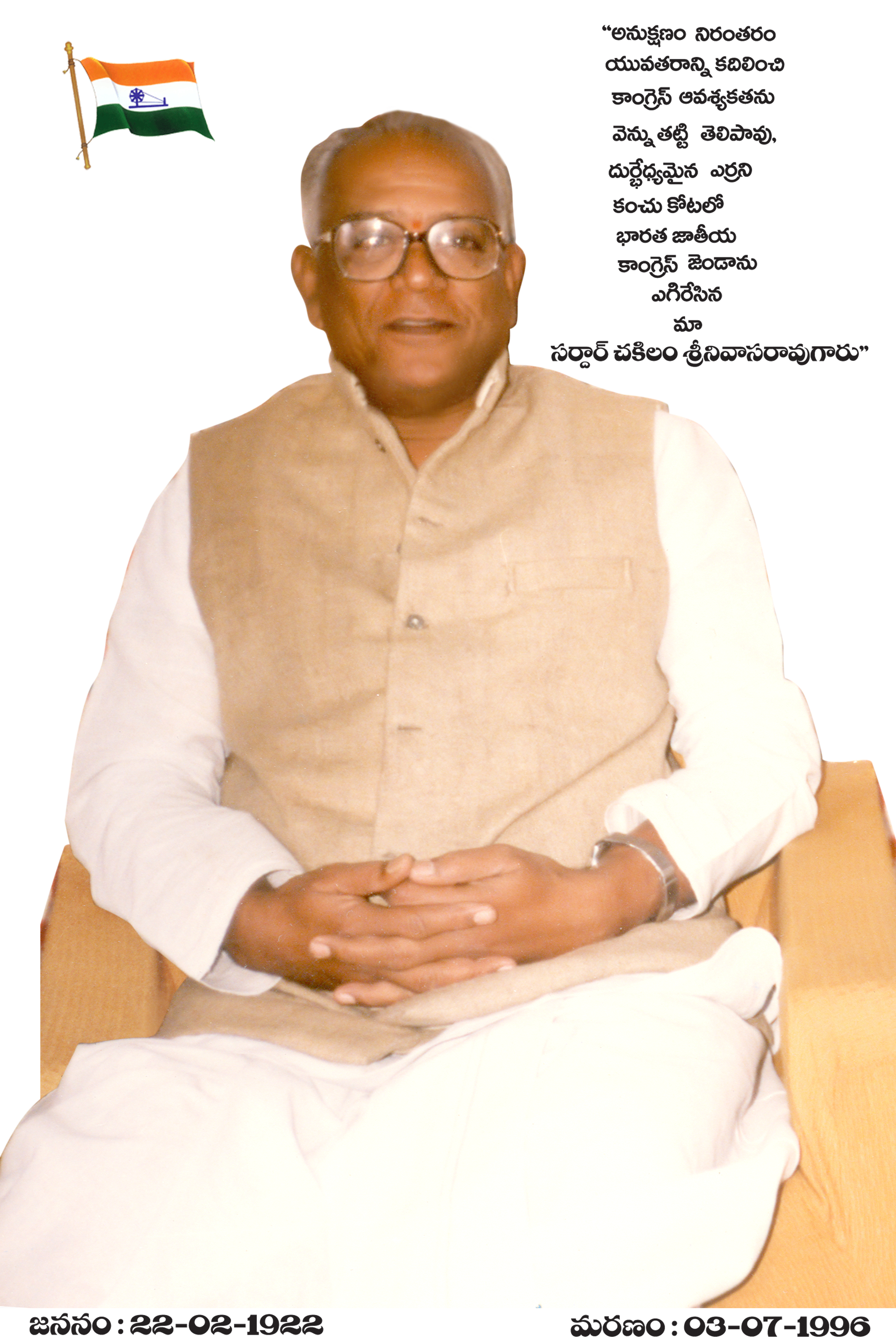 Sardar at Parliment Sessions